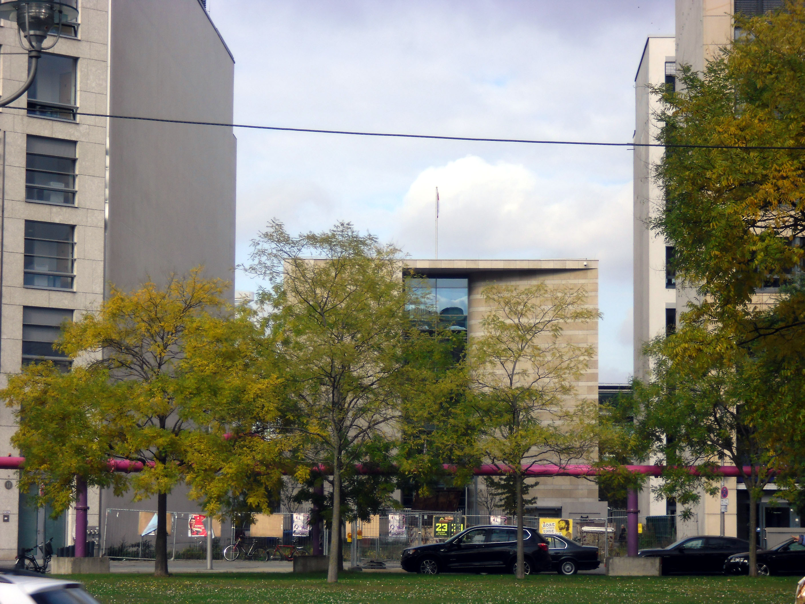 Singapore's Embassy to Germany on Voßstraße seen from Leipziger Platz